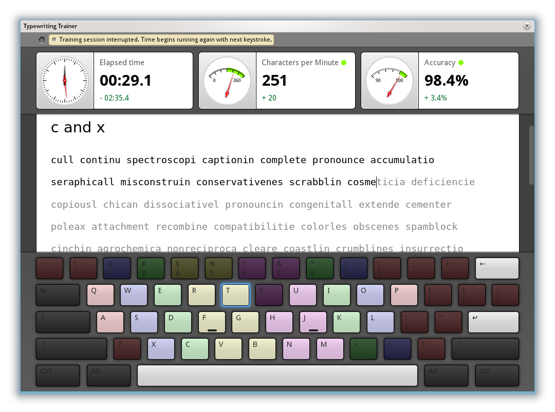 The training screen of KTouch Typewriting Trainer